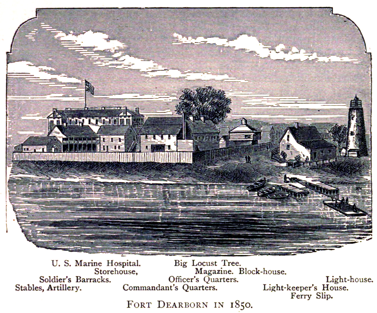 The above is a very good representation of the Fort, in 1850, from a daguerrotype, by Polycarpus von Schneidau, a Swedish nobleman, taken from the south front of the Lake House, which was situated on the east side of Rush Street, extending from Michigan to Kinzie (now called North- Water) Streets. The ferry, shown in the foreground, landed on the North-Side, about where the " Empire Warehouse " now is. The building faintly shown between the block-house and the light-keeper's, is the residence of the late "Judge" Henry Fuller, and was just outside of the Fort enclosure, and the ground is now covered by Spaulding & Merrick's tobacco works. There was another building in the Fort enclosure, not shown in this view, just east of the block-house; were the officers' quarters in this view removed, it would appear as if in front of the large locust-tree, and was the quartermaster's or sutler's quarters. The parade-ground was between the commandant's, officers', and sutler's quarters on the west, and the building where the artillery was housed, the soldier's barracks, and the storehouse on the east; and was about 80 feet wide, and extended from the river bank south, the full length of the enclosure — say 400 feet; near its southern extremity was a gentle rise of ground or knoll, in the centre of which was an 8-inch piece of square timber, imbedded in the earth, placed upright, about 2 feet high, upon the top of which was a brass plate on which had been a sun-dial. South of this sun-dial, say 100 feet, was a turn-style through which you entered the P'ort enclosure from the centre of Michigan Avenue, which then commenced at this point. The whole Fort enclosure was surrounded by a rough-board fence, white-washed, about 6 feet high; the pickets having been removed at an earlier date. The kitchen-garden was in the south-west corner of the enclosure and with it made more hearts merry than any man who ever lived in Chicago.